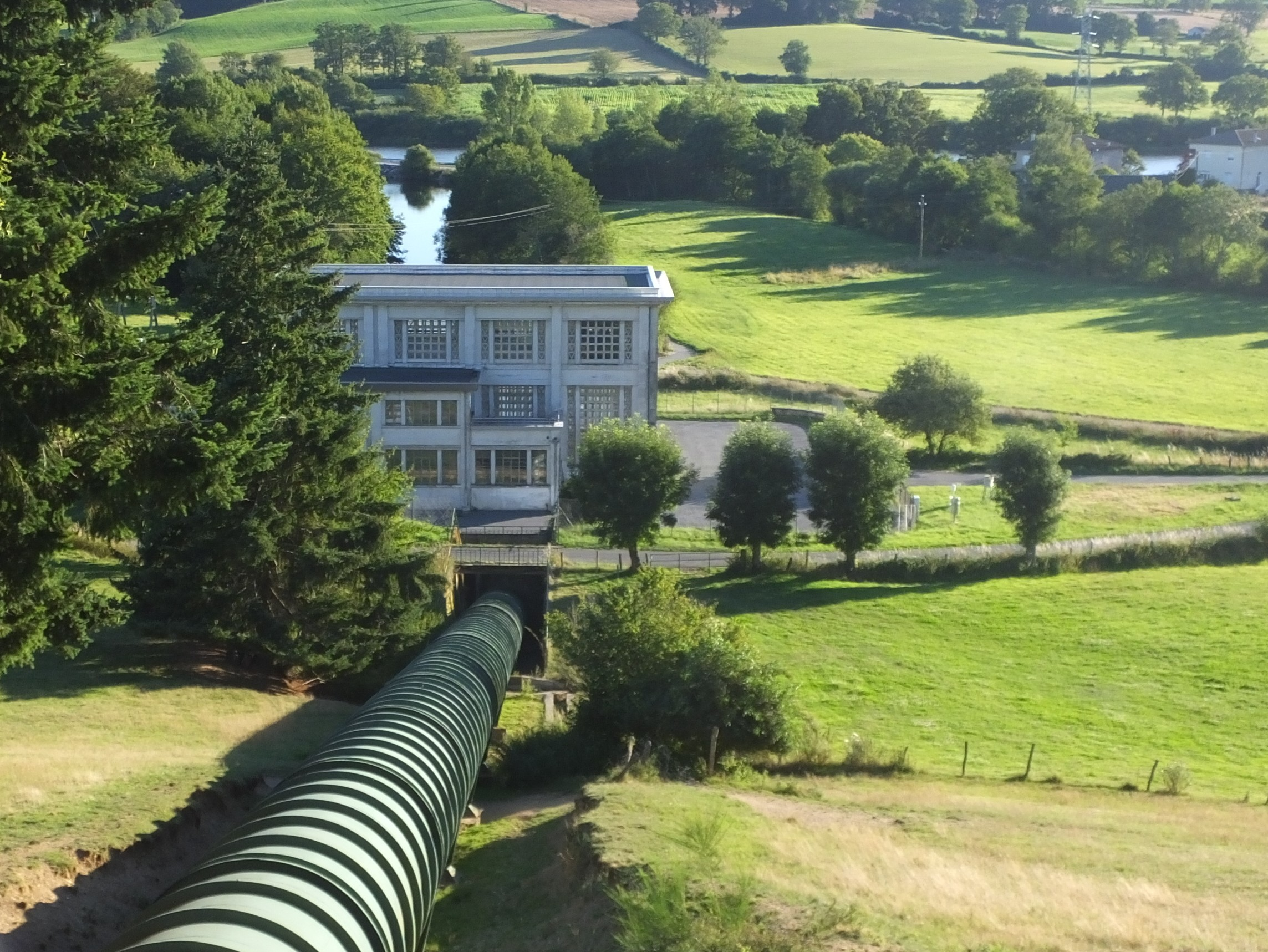 Description=The Alrance hydroelectric power station discharges into the head of the Lac de Villefranche-de-Panat, Aveyron, France which was built between 1949 and 1952 on the Alrance (river). Waters come through 10.8 km long penstocks from the Lac de Pareloup.